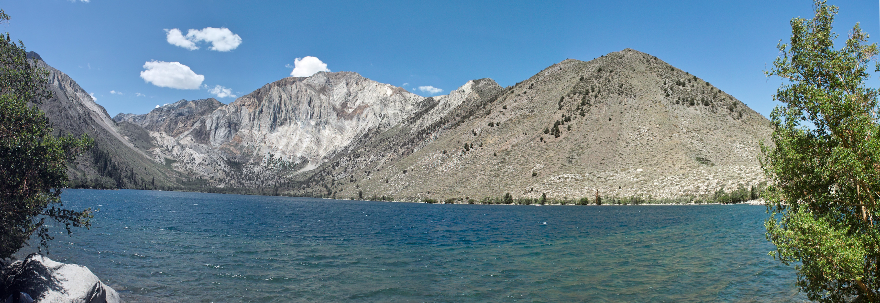 Convict Lake, near Mammoth Lakes, California. This is a 3-shot wide pano, looking west from the east end of the lake.